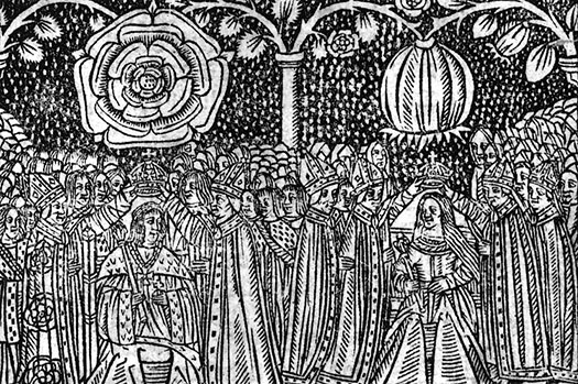 16th century woodcut of the coronation of Henry VIII of England and Catherine of Aragon showing their heraldic badges, the Tudor rose and the pomegranate. From Stephen Hawes, A Joyfull Medytacvon to All Englande(1509), printed Wynkyn de Worde, 4to, n.d. (Cambridge University Library), a single sheet with woodcut of the coronation of Henry VIII and Catherine of Aragon.